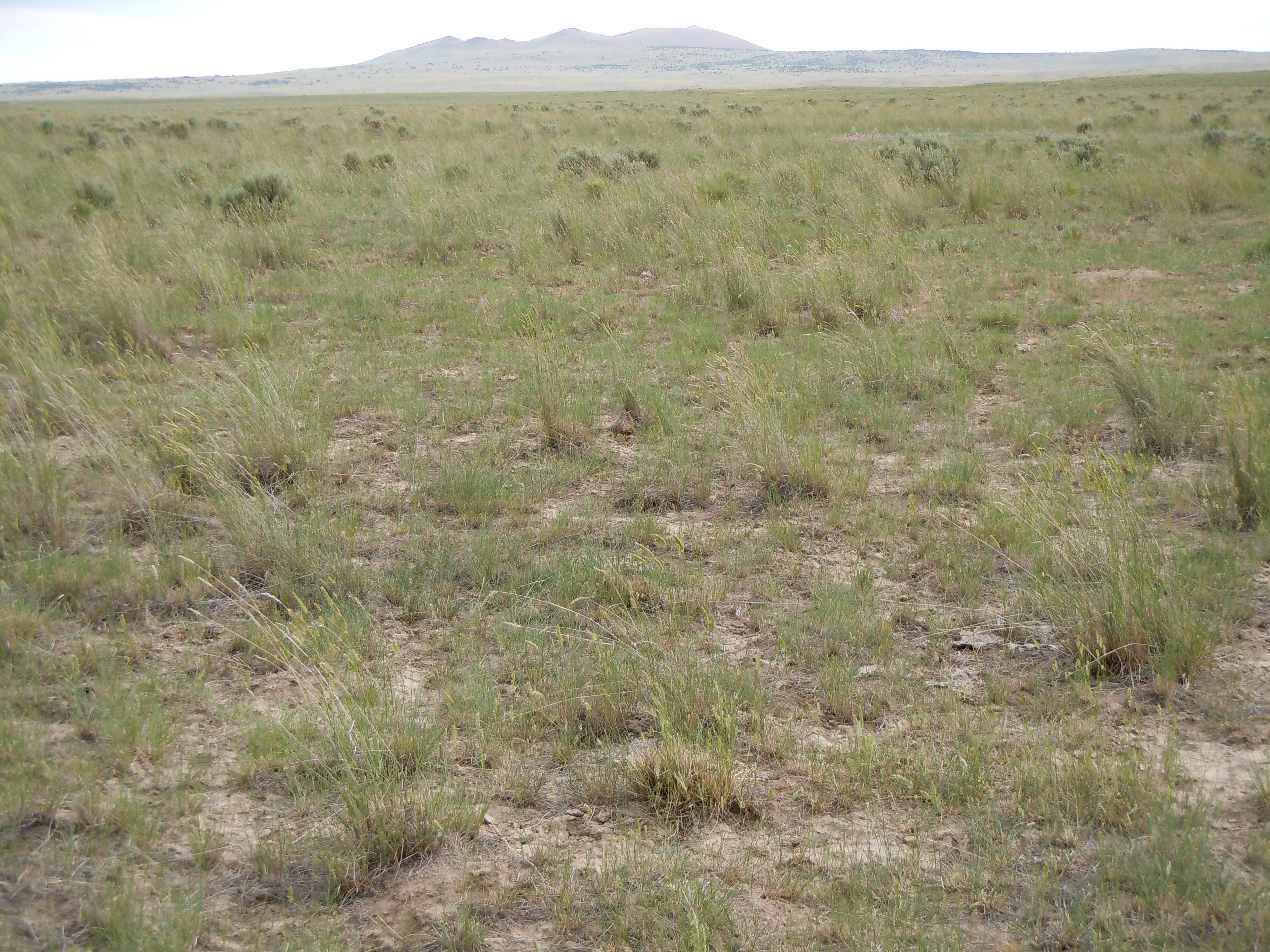 One of many scenes where crested wheatgrass predominates (even if as stubble) on the north side of Big Southern Butte.